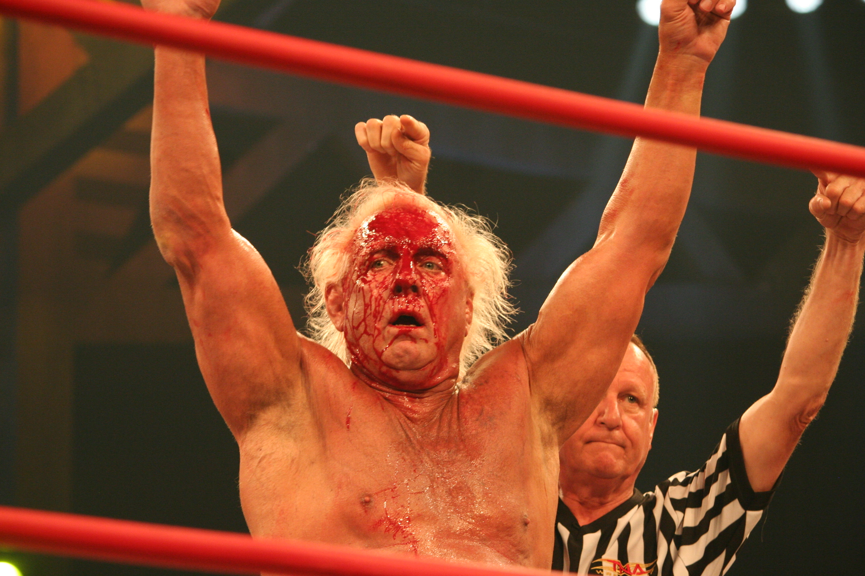 Professional Wrestler Ric Flair after winning a Hardcore match in 2010.